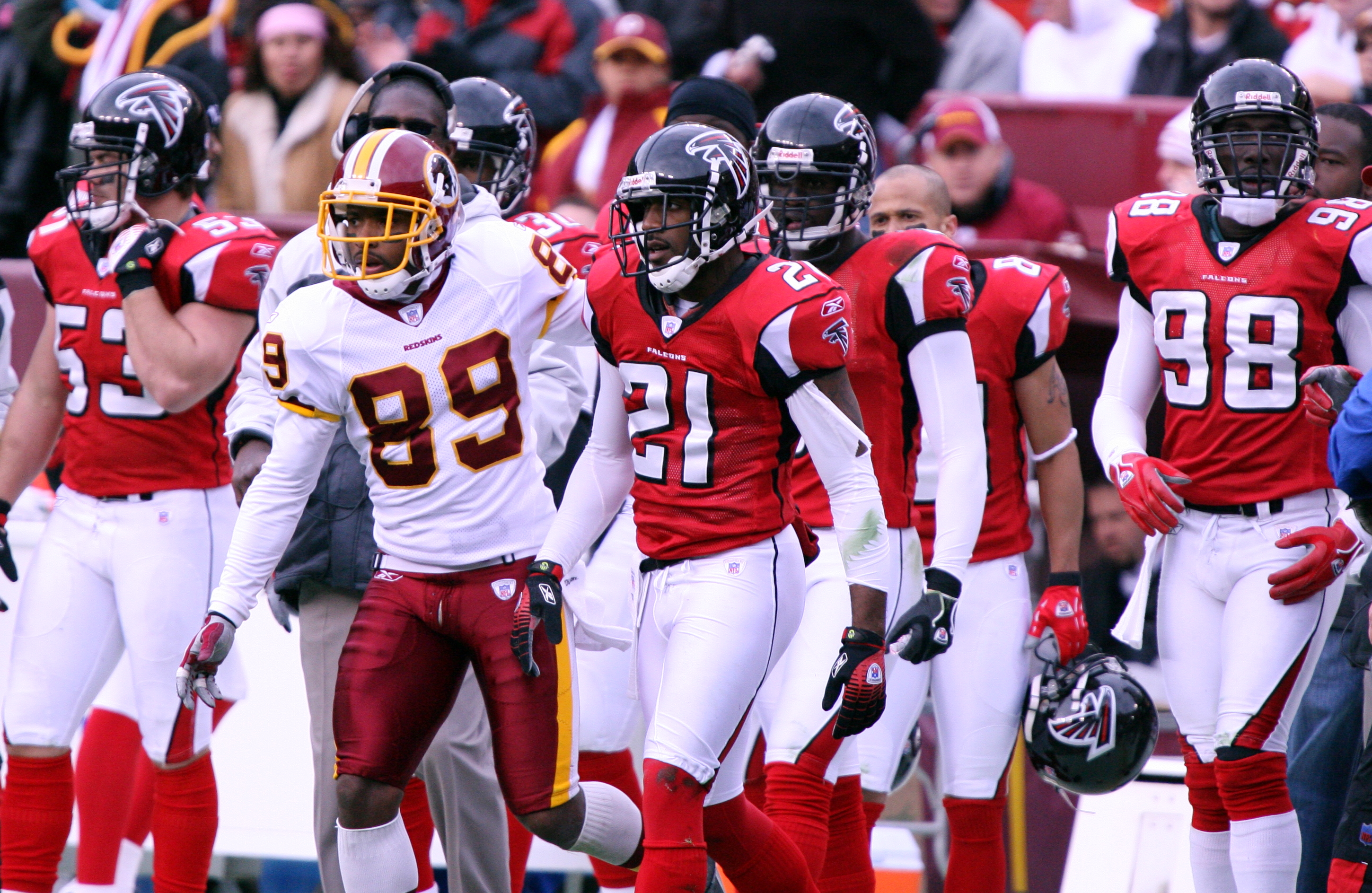 2006 Falcons-Redskins game.